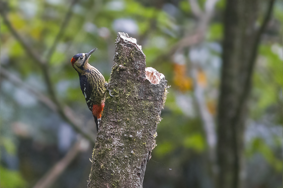 The species Darjeeling Woodpecker had been photographed during the birding tour of GoingWild at Khangchendzonga Biosphere Reserve, West Sikkim, Sikkim in India on 30.10.2015.